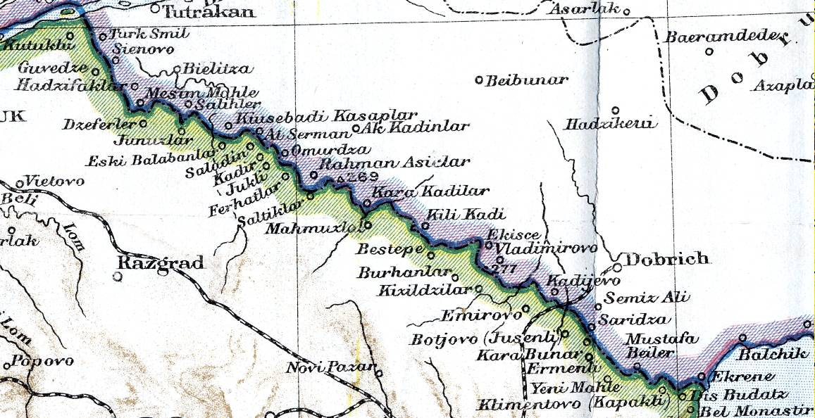 The Romanian-Bulgarian fronteer established on the treaty of Bucharest (1913)